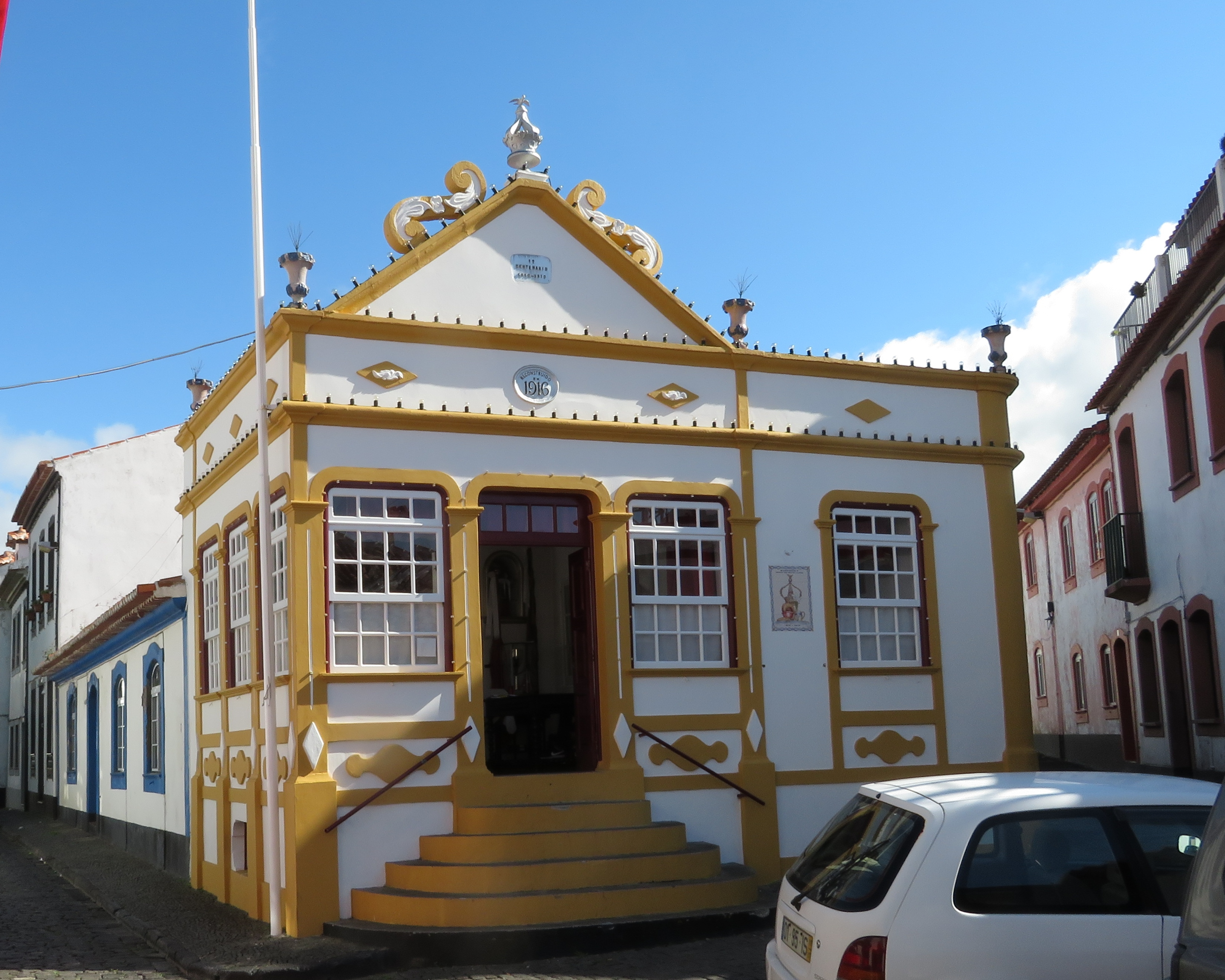 Chapel "Império Do Espírito Santo Dos Quatro Cantos", Angra do Heroismo, Terceira, Azores, Portugal